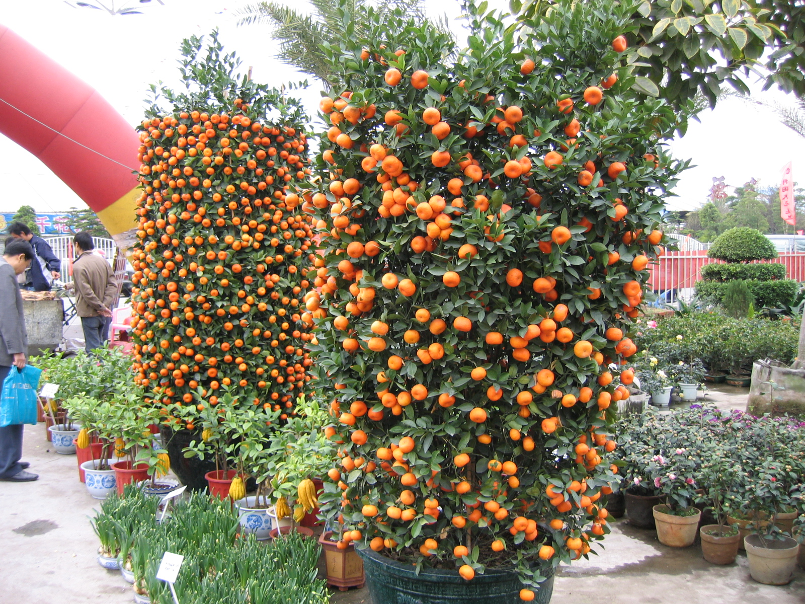 金桔——大吉大利 Flower market, Chencun, Foshan, Guangdong, China